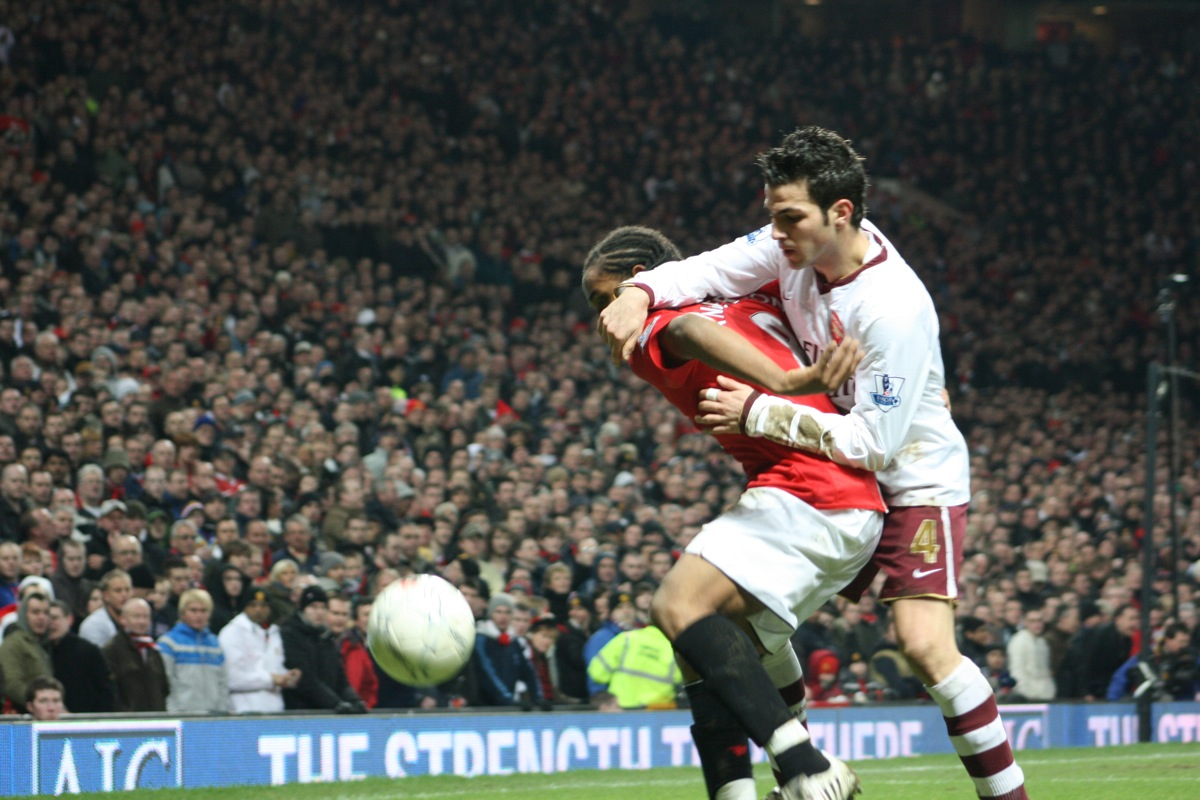 Arsenal's Cesc Fàbregas (white shirt) duels with Anderson of Manchester United